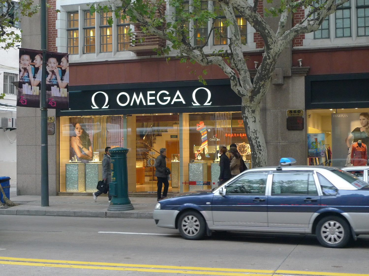 Omega in Shanghai